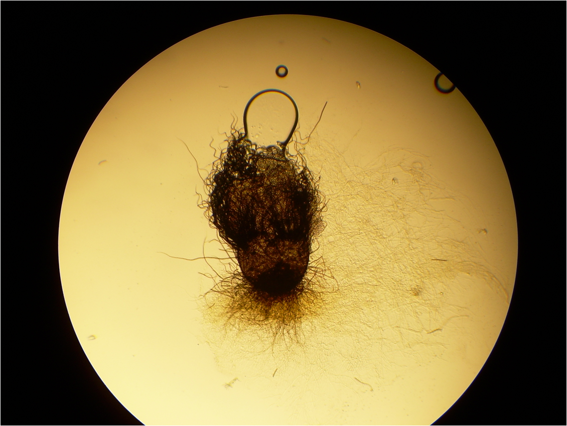 Chaetomium (anamorph: Acremonium) perithecium magnified 40X. Identified using Hanlin, R. T. (2001) Illustrated Genera of Ascomycetes, Volume I. APS Press: St. Paul, MN; pp. 101–2 ISBN 0-89054-107-8. Recovered from blackberries (Rubus L.). Host status confirmed using Farr, D. F., Bills, G. F., Chamuris, G. P., & Rossman, A. Y. (1995) Fungi on Plants and Plant Products in the United States. APS Press: St. Paul, MN; pp. 486–8 ISBN 0-89054-099-3.